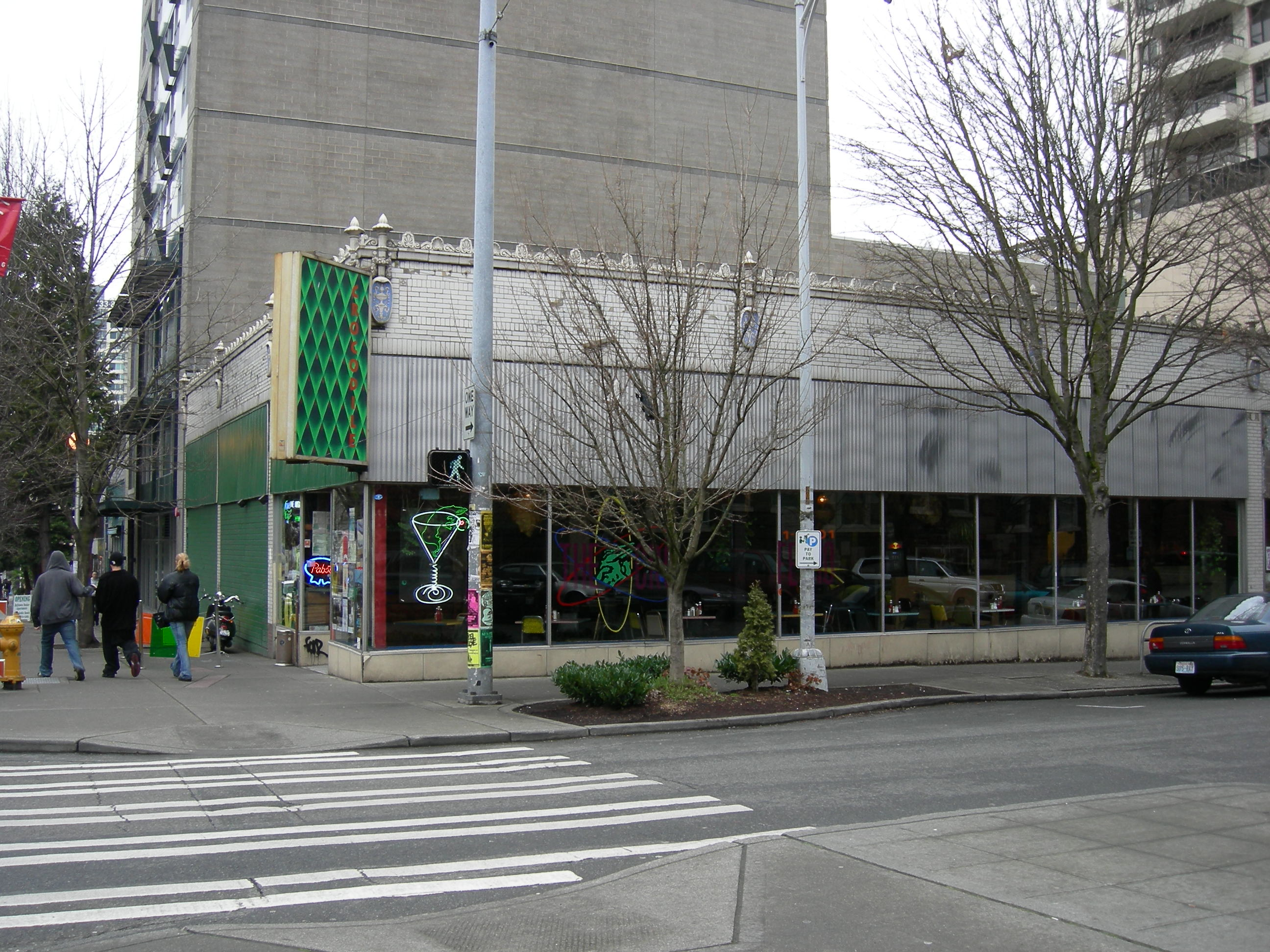 Crocodile Cafe, Second Avenue, Belltown, Seattle, Washington.